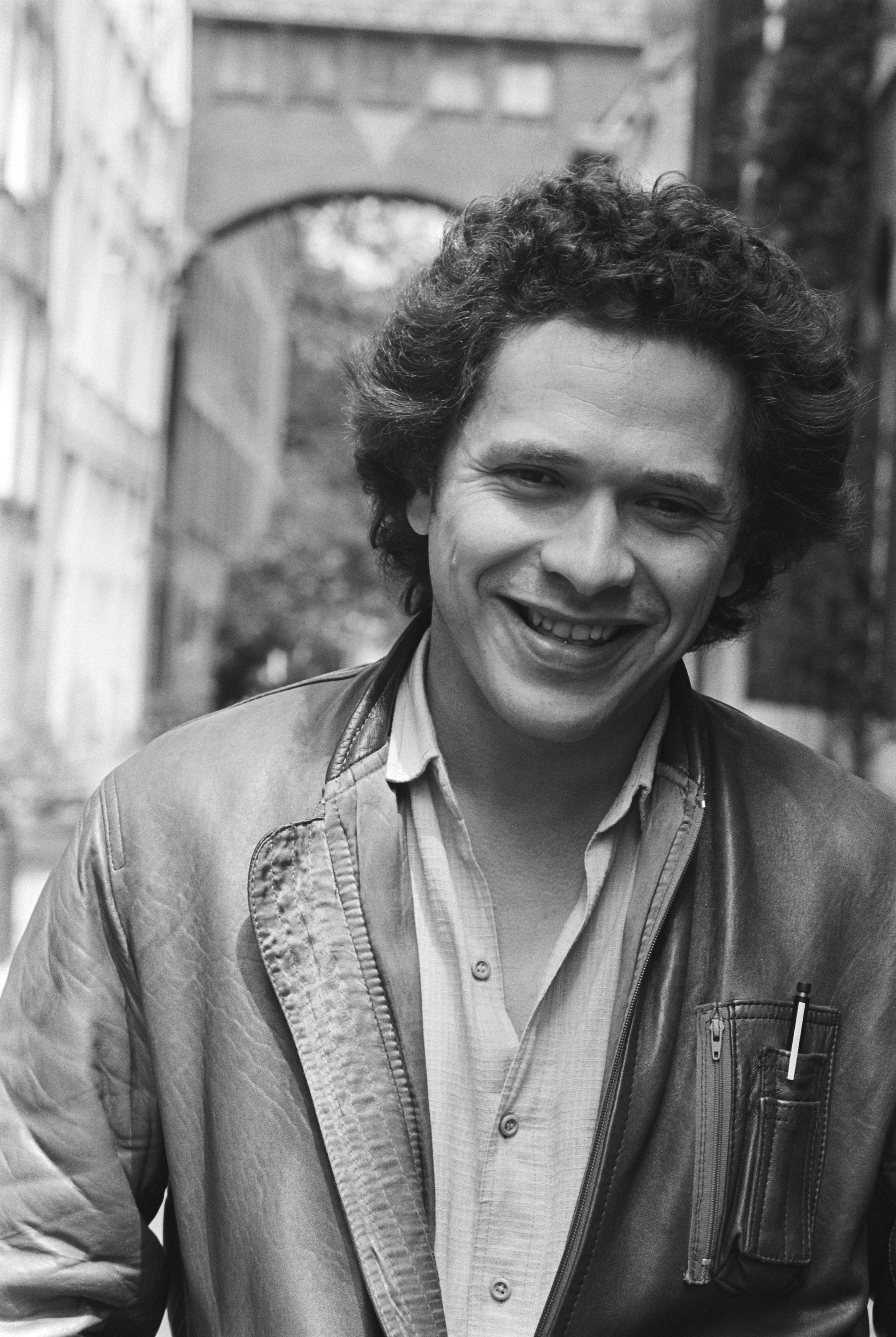 Dutch composer Micheal Waisvisz (in 1981)